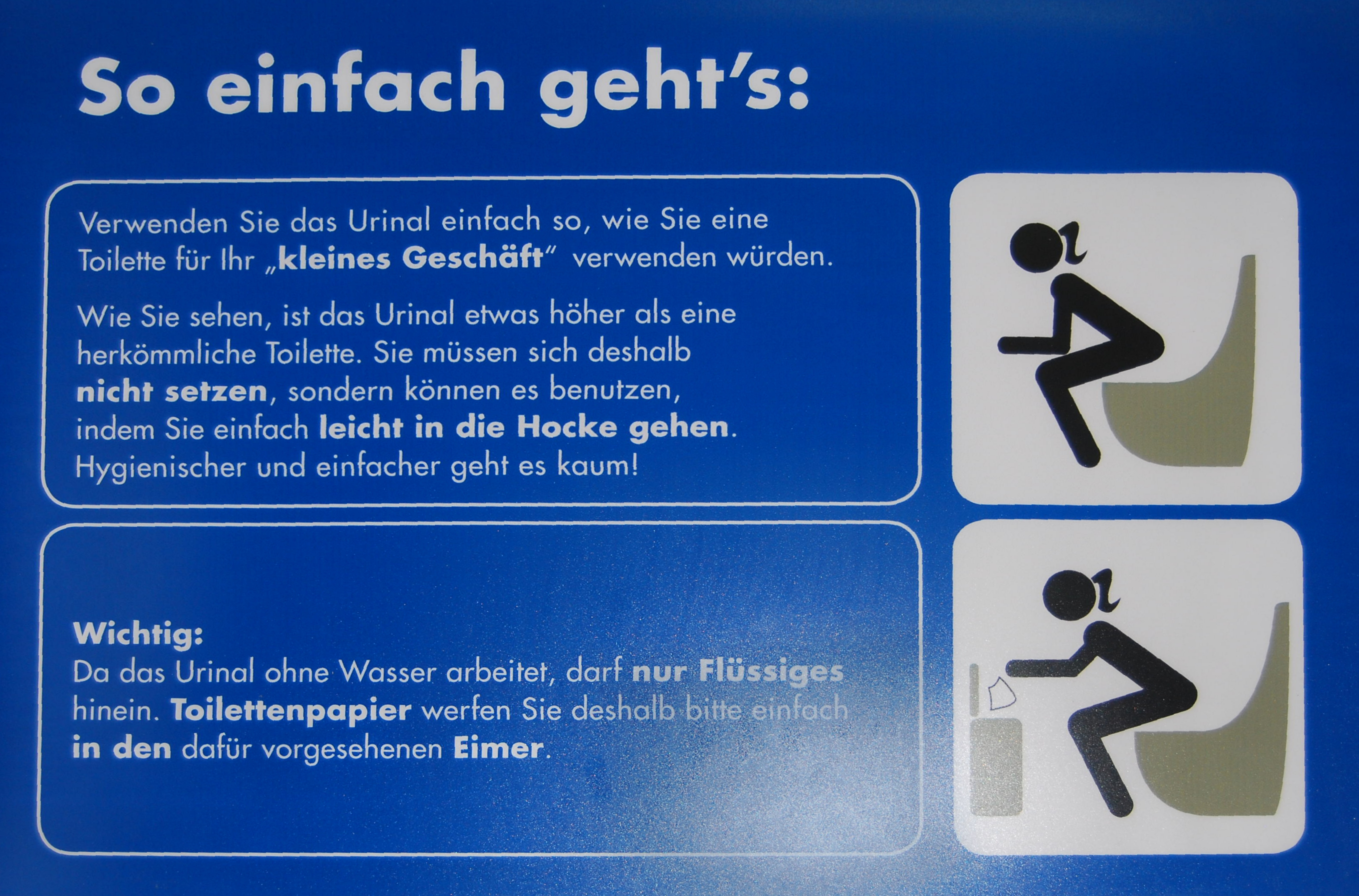 In the public toilet cabin, there is an instruction poster, to explain the correct use of a waterless urinal for females. Photo by Katharina Löw, June 2011